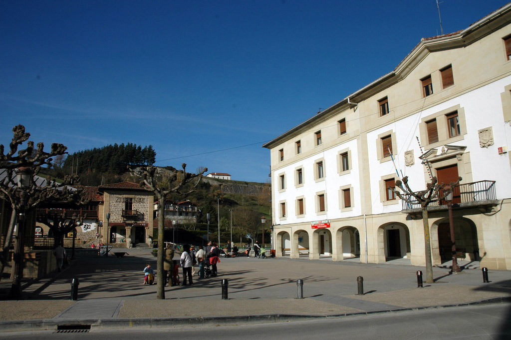 Idiazabal